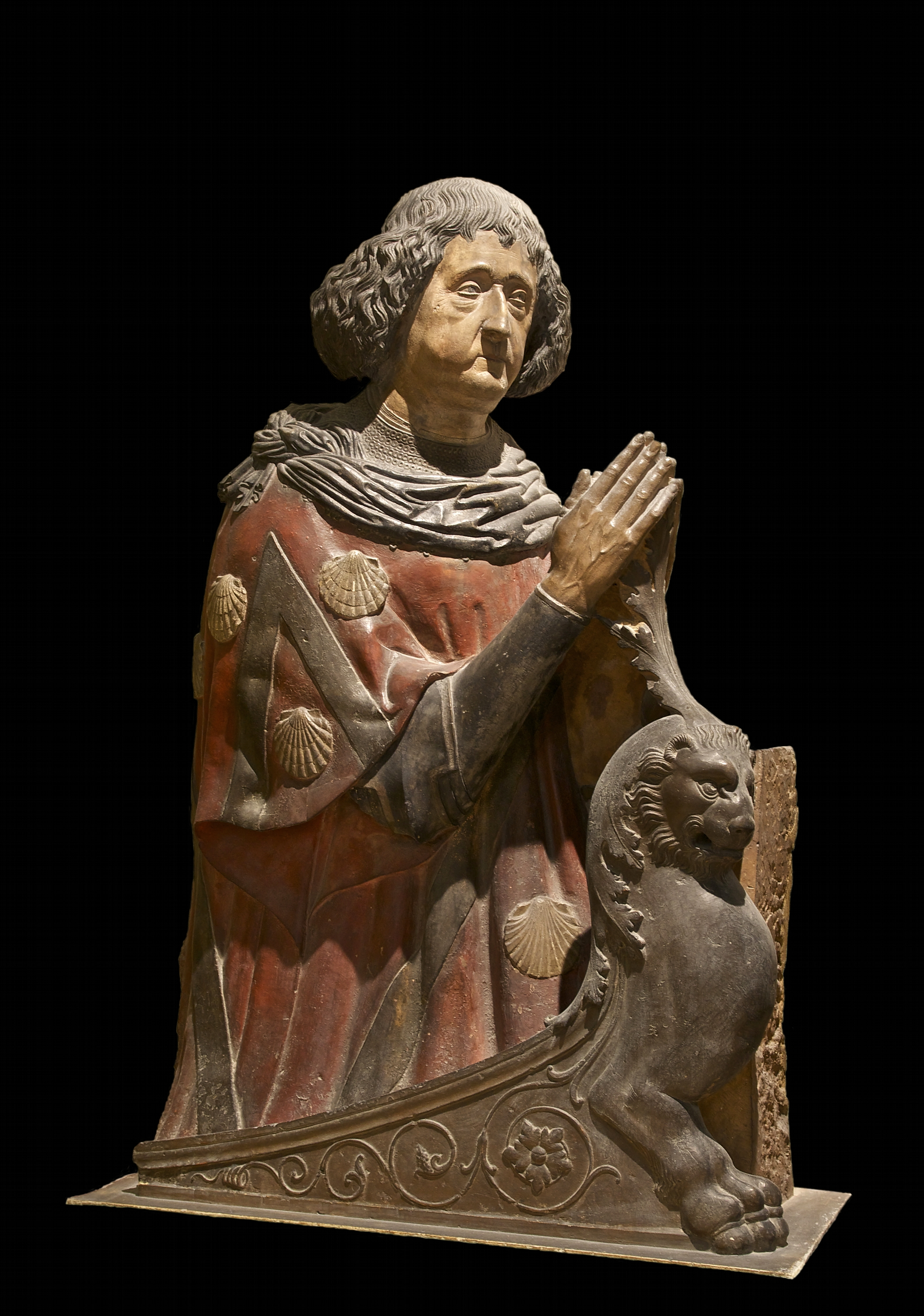 Praying bust of Philippe de Commines, from a pair with the one of his wife, Hélène de Chambes-Montsoreau